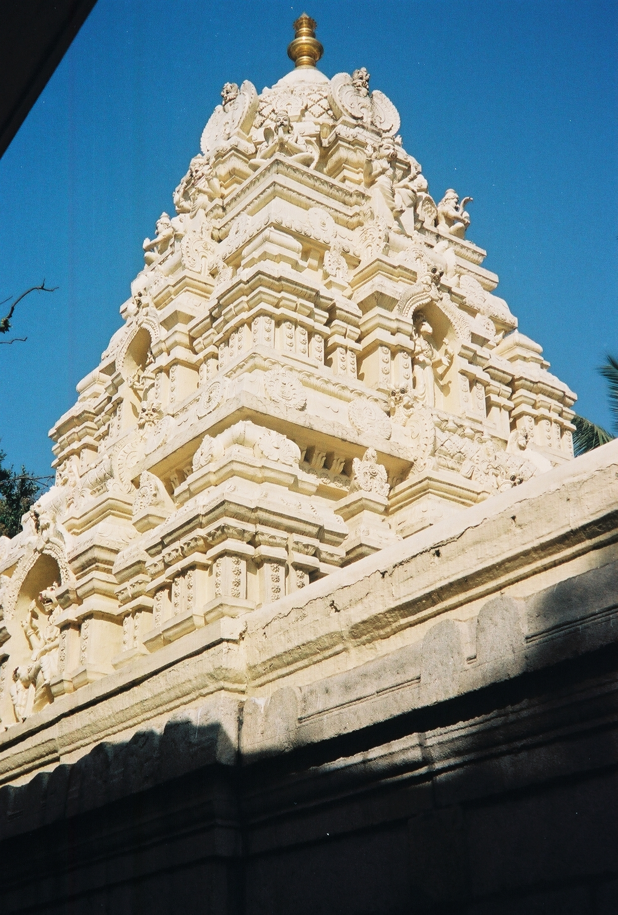 The main Gopura (Tower)above the Sanctum Sanctorum of the Kote Lord Sreenivasa temple in Bangalore